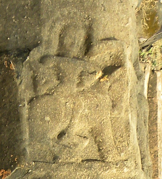 Sridharavarman pillar (horserider detail)